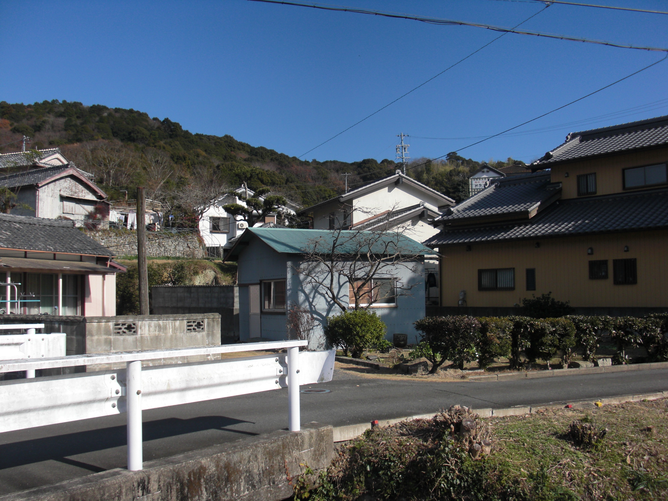 This is a landscape of Hamajimacho-Hiyamaji, Shima, Mie, Japan.